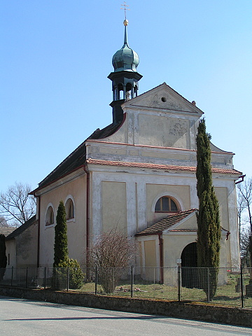 Saint Giles church in village of Újezd u Přelouče, Pardubice District, Czech Republic